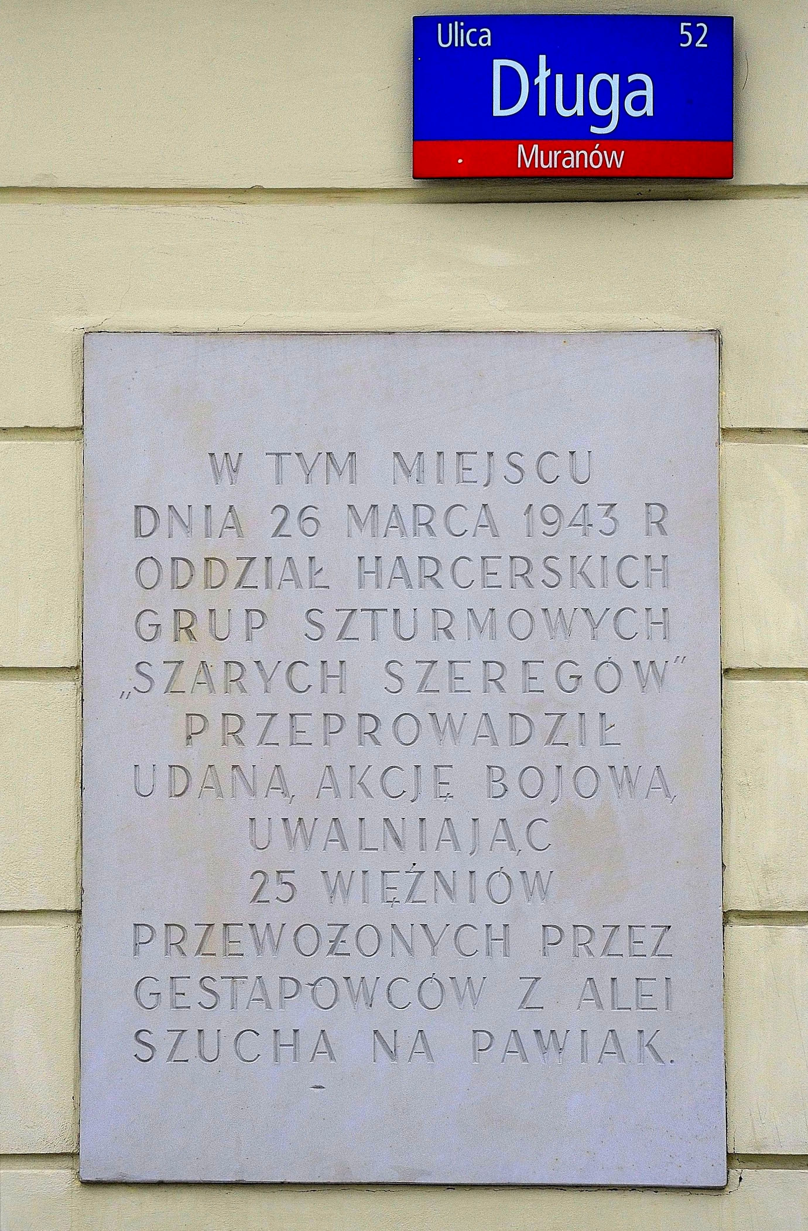 Plaque commemorating Operation Arsenal on the facade of the Arsenał building at Długa 52 in Warsaw